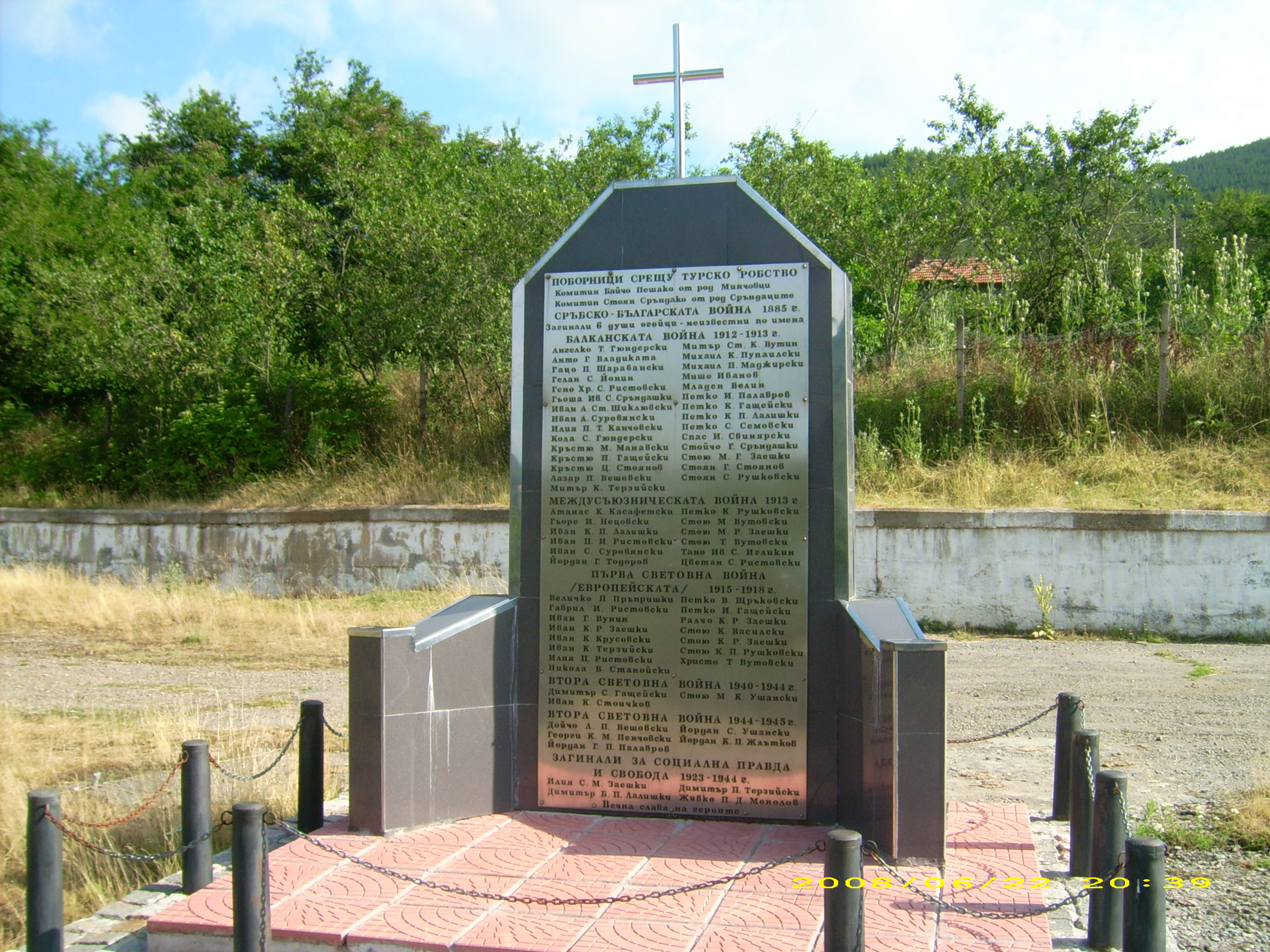 War monument in village Ogoya, Bulgaria